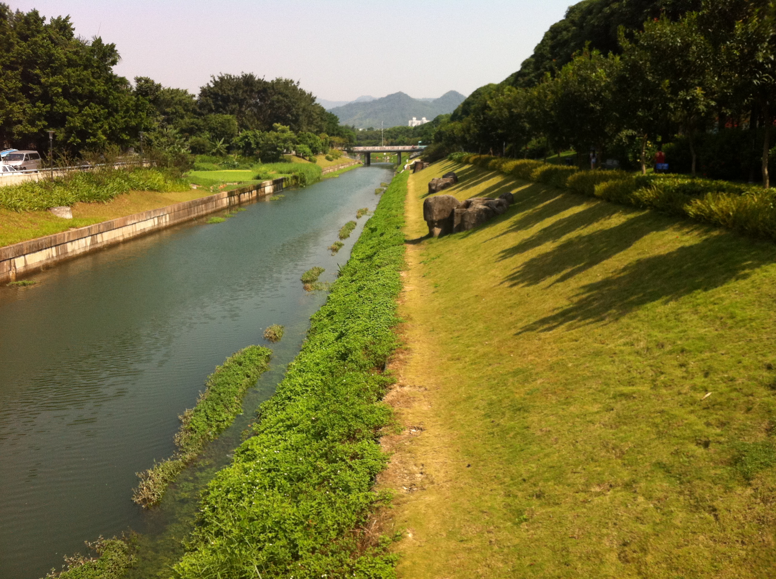 Futian River of Shenzhen